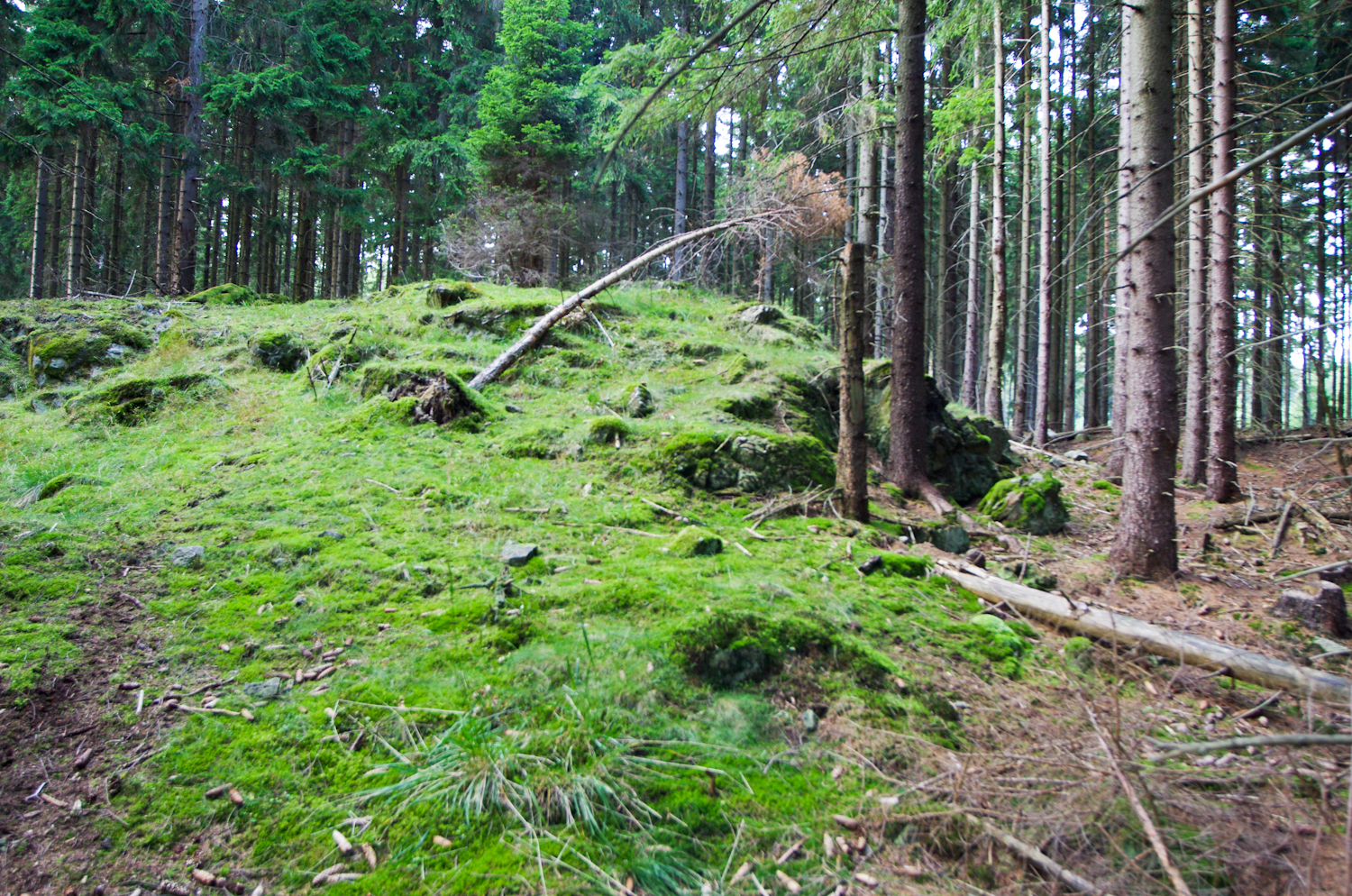 Nature reserve Planý vrch in Slavkovský les, Cheb District, Czech Republic